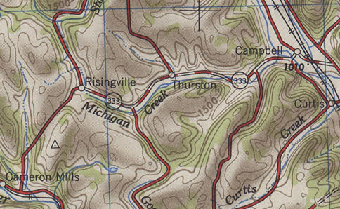 1948 topographic section of former New York State Route 333